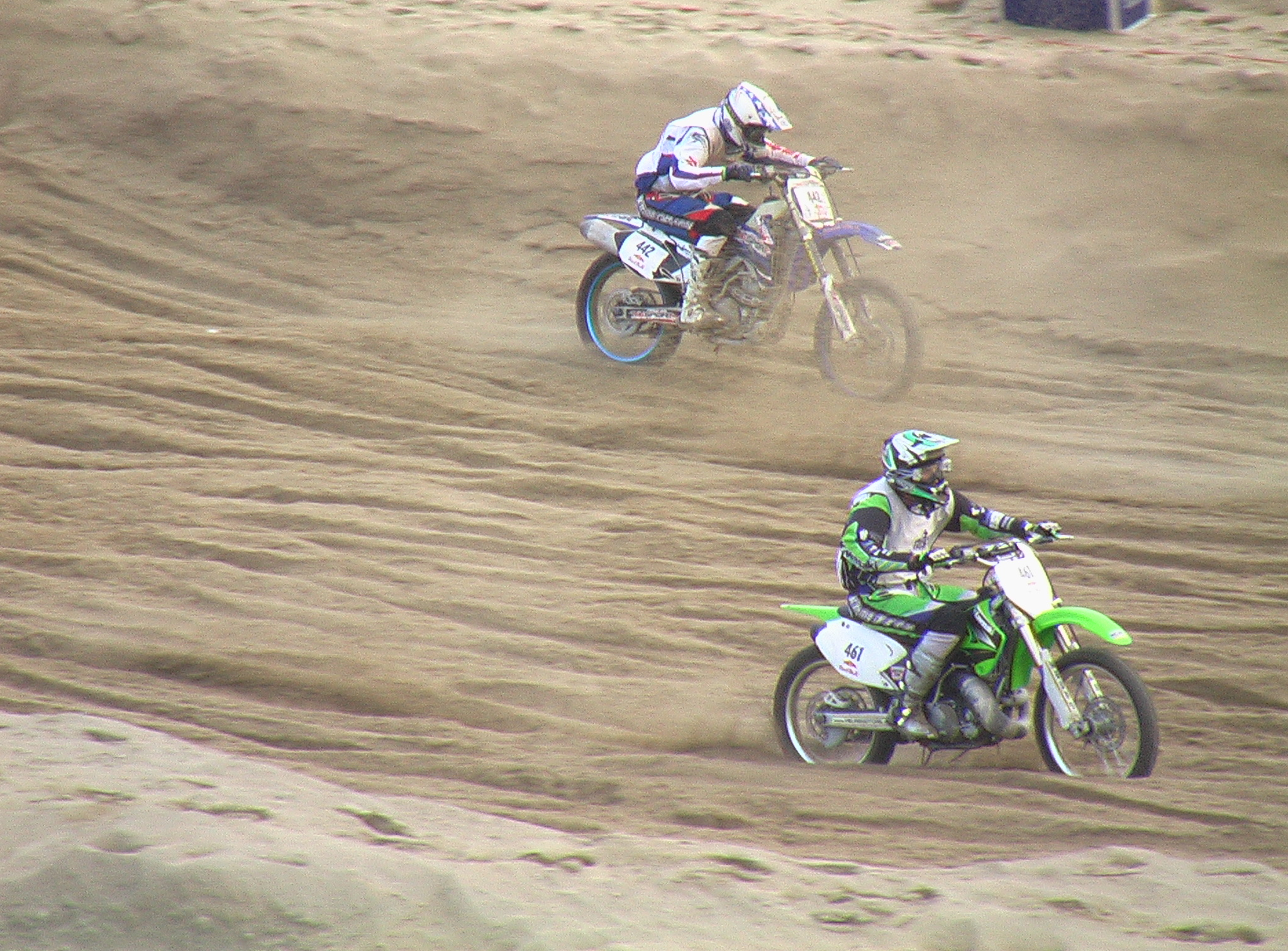 Self made picture of motors. Made in november 2006 in Scheveningen. All rights released, public domain.